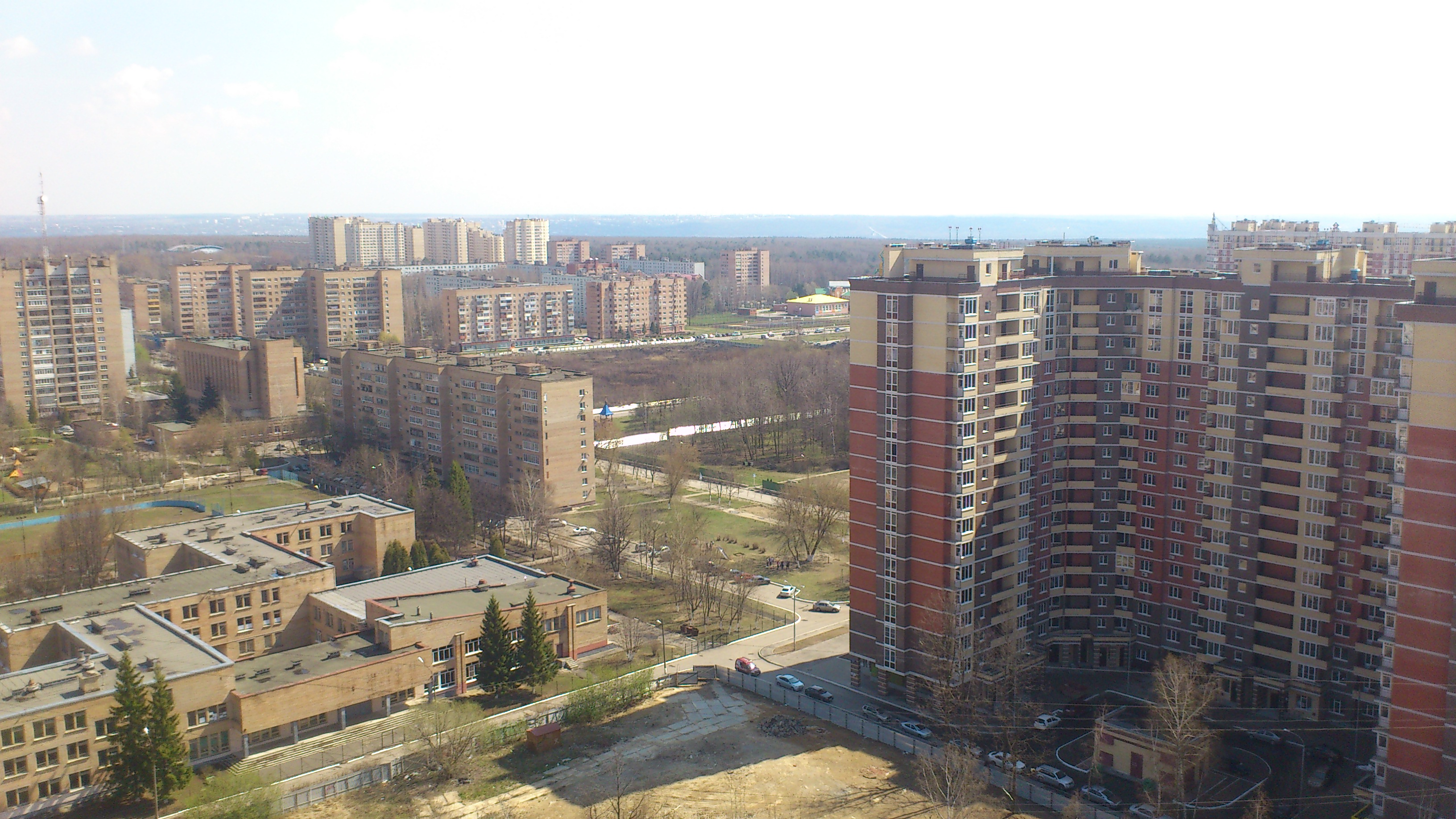 Stupino, Moscow Oblast, Russia